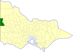 Location of the former Shire of Kaniva within Victoria.